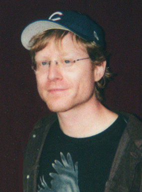 Actor Anthony Rapp at the Annual Flea Market and Grand Auction hosted by Broadway Cares/Equity Fights AIDS on September 26, 2006. Created by Insomniacpuppy.